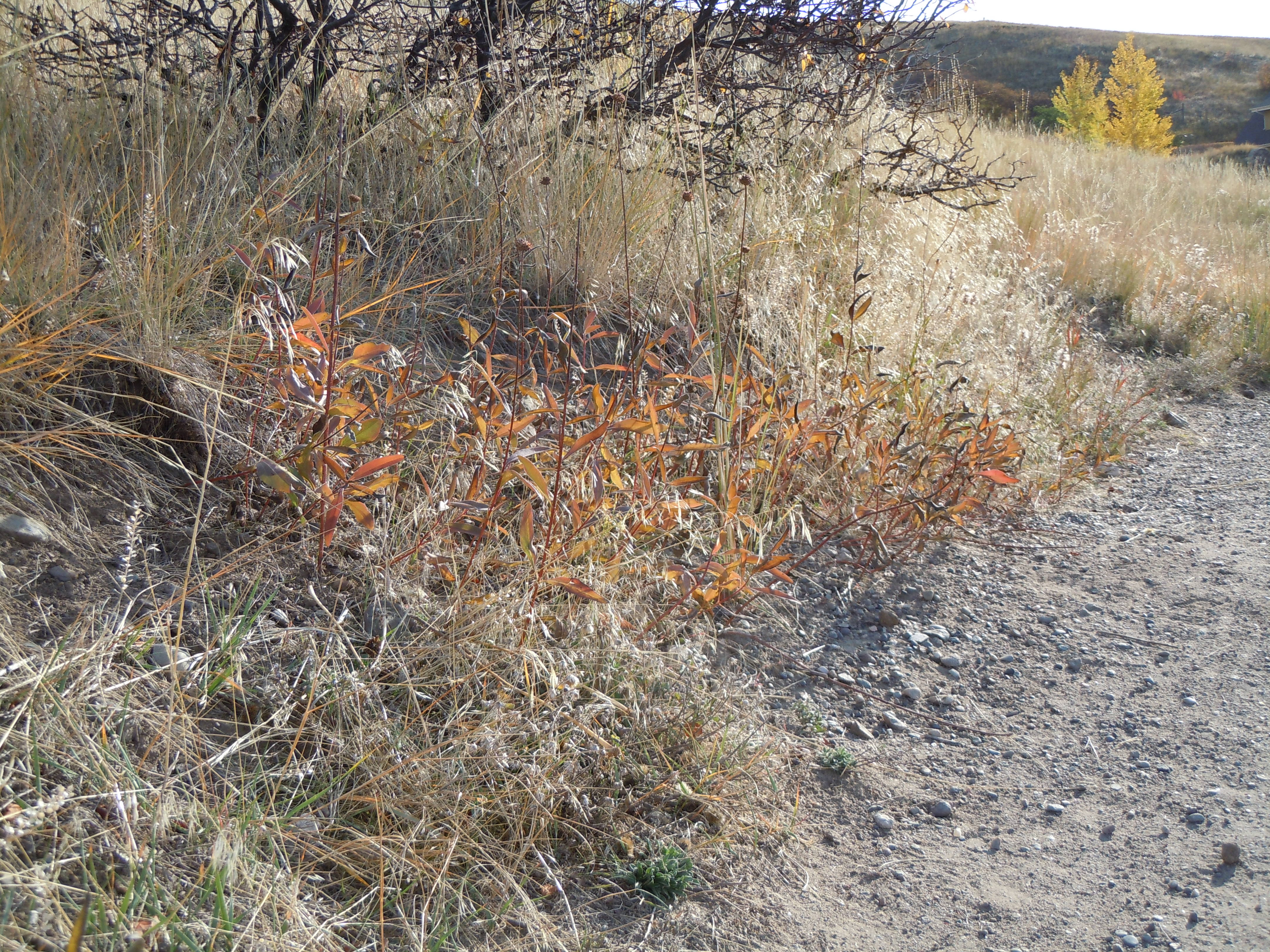 A greater abundance of stiff sunflower (with reddish stems and yellowish leaves) at trailside than out in the adjacent sagebrush steppe reflects the general predilection of the genus Helianthus for moderately disturbance prone ecologies.